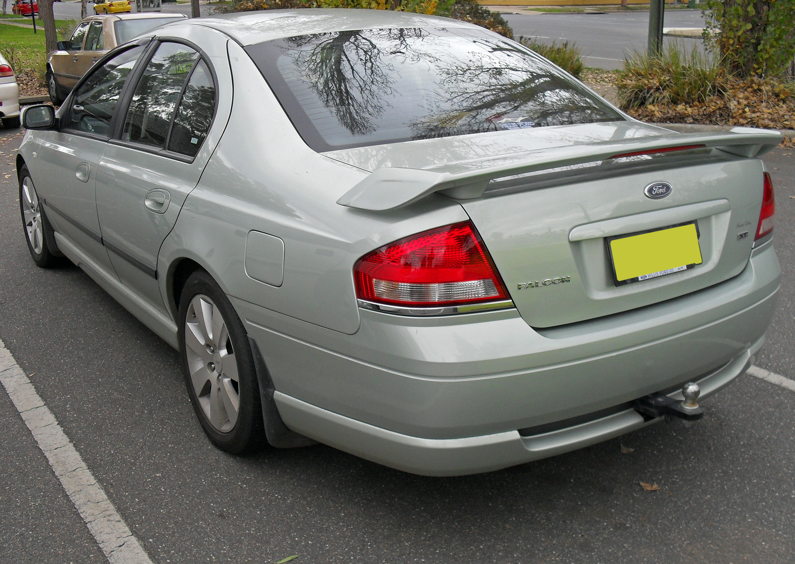 2002–2004 Ford BA Falcon XT "Limited Edition", photographed in New South Wales, Australia.